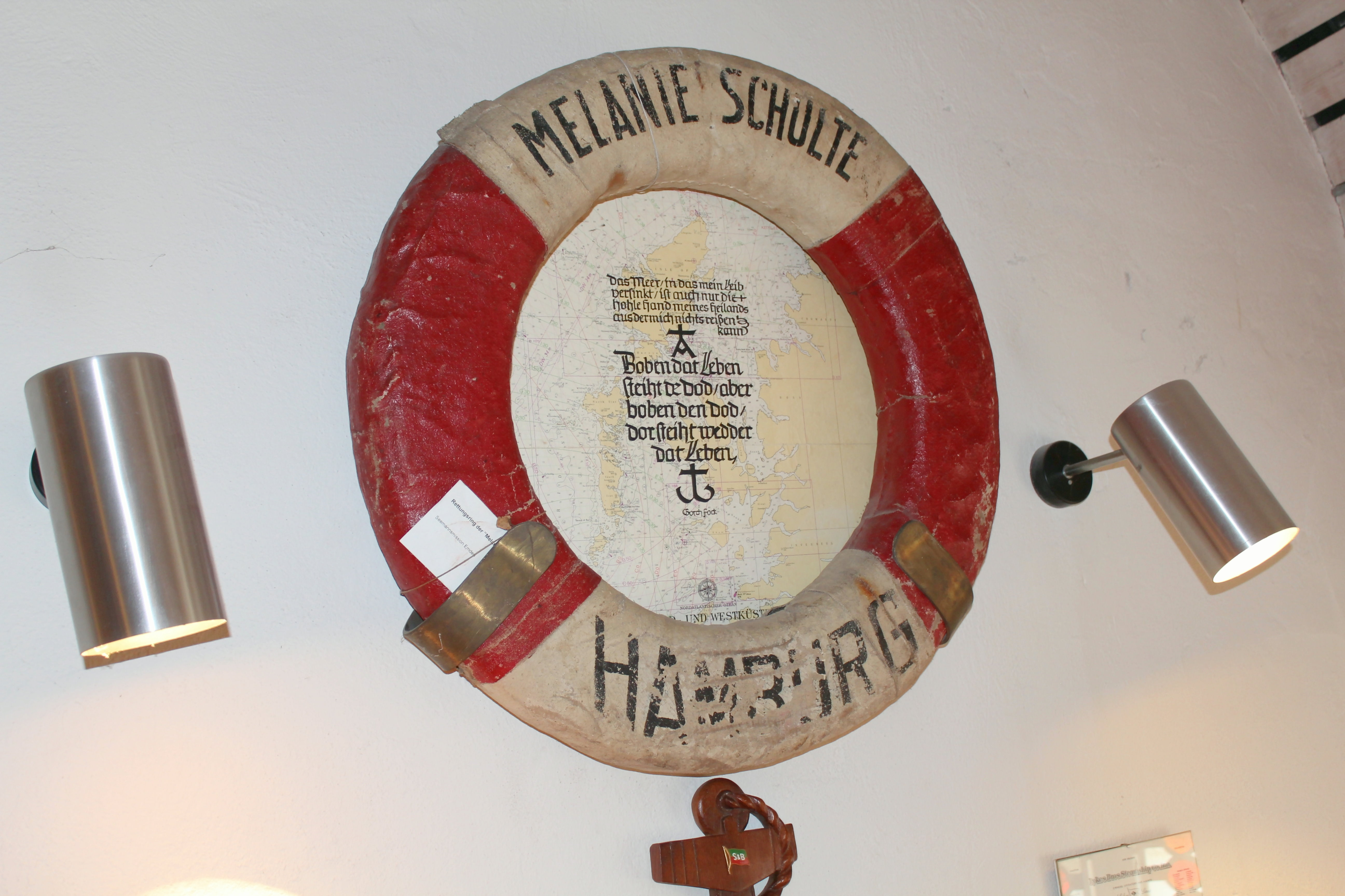 life buoy of sunken freighter Melanie Schulte